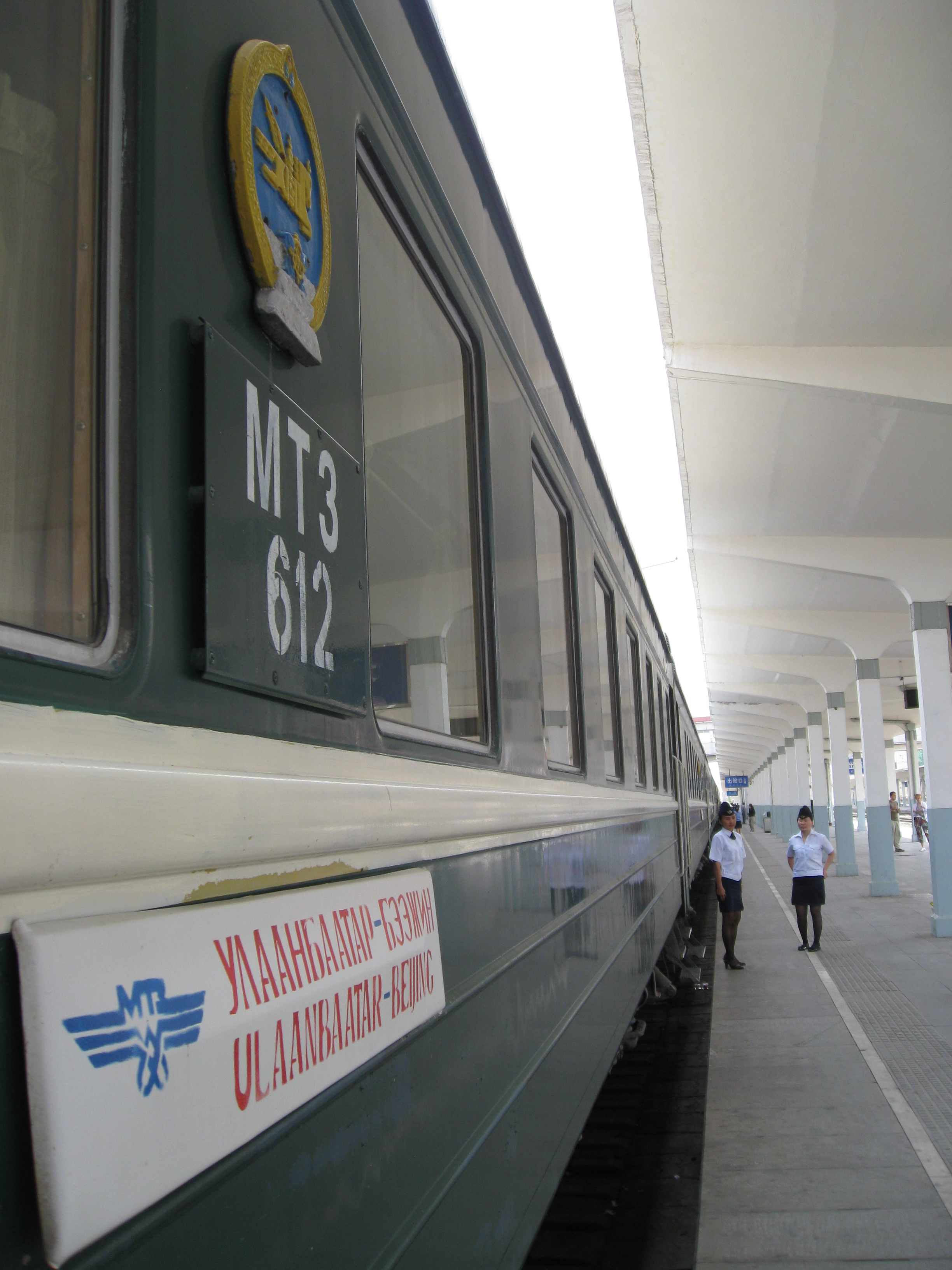 Trans-Mongolian Railway